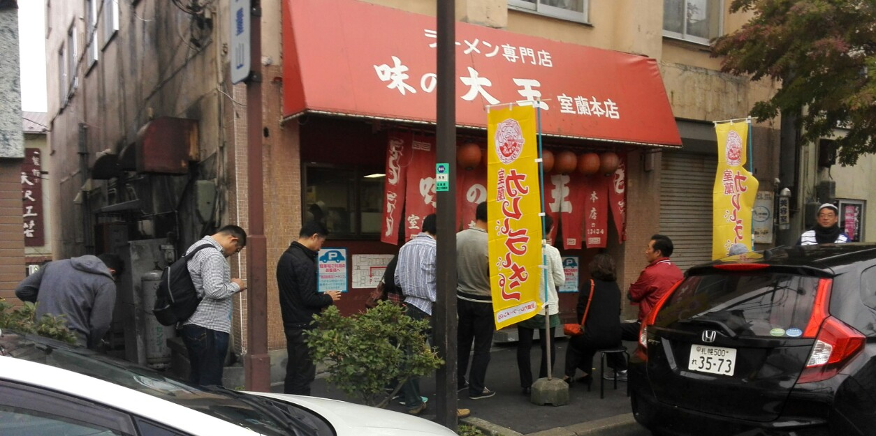 AjinodaiO Muroran head office